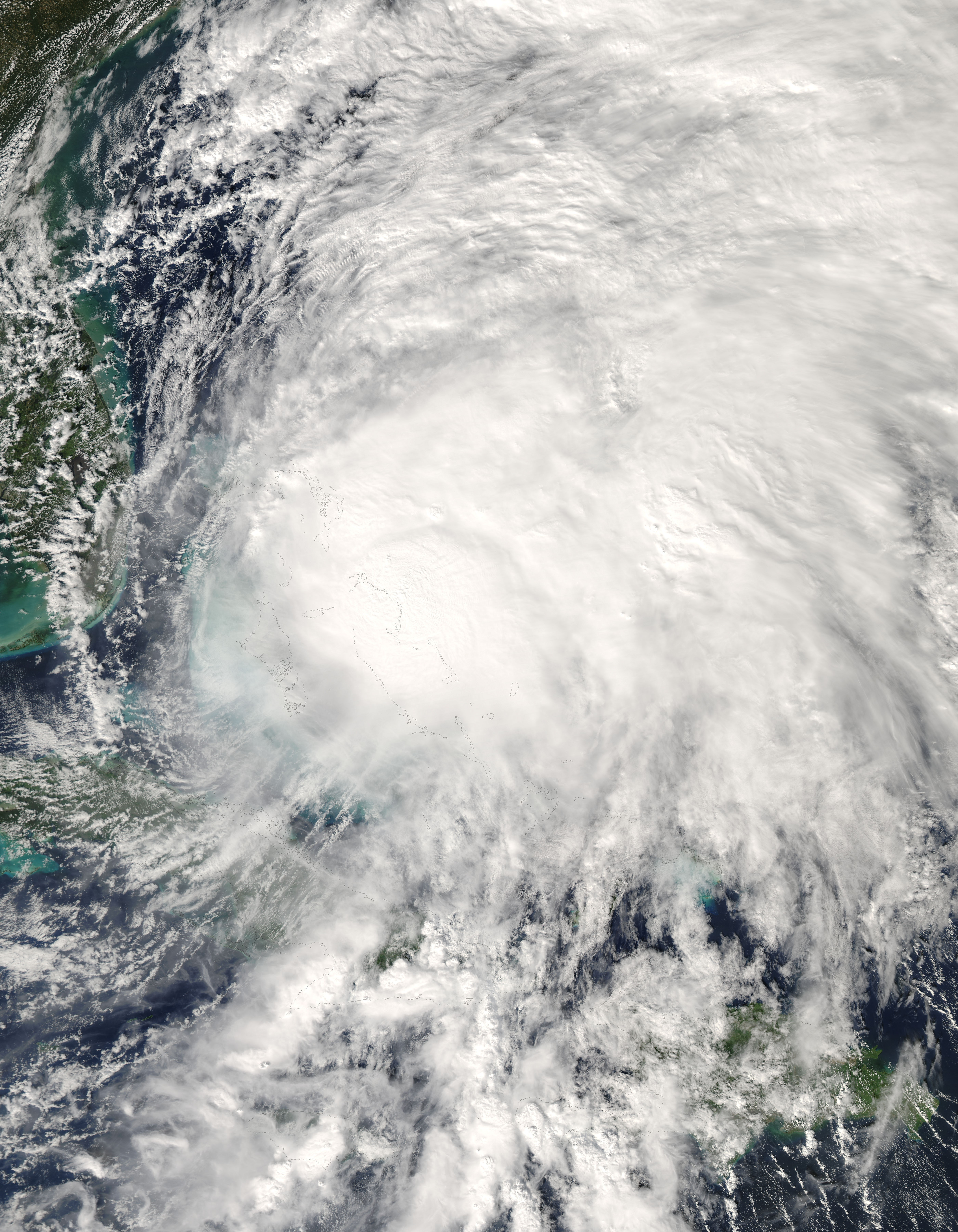 The Moderate Resolution Imaging Spectroradiometer (MODIS) on NASA’s Aqua satellite captured this photo-like image of Tropical Storm Noel as the storm passed over the Bahamas Islands on November 1, 2007, at 2:15 p.m., local time. At that time, Noel had sustained winds of 95 kilometers per hour (65 miles per hour) and was moving northeast at 23 km/hr (14 mph), said the National Hurricane Center. The storm later intensified into a Category 1 hurricane and tracked north along the east coast of the United States. Noel spreads messily across hundreds of kilometers in this image. The center of the storm, a tightly concentrated mass of clouds, sits nearly directly over the Bahamas, while clusters of thunderstorms stretch north and east from the center. In its rampage across the Caribbean, Noel caused at least 115 deaths, primarily in the Dominican Republic and Haiti, reported the Associated Press on November 2. Though the storm was relatively weak, it moved slowly over the two nations, dumping as much as 550 millimeters (21 inches) of rain. (View a satellite-based rainfall map.) The heavy rain caused deadly flooding and mudslides. The large image provided above is at MODIS’ maximum resolution of 250 meters per pixel. The image is available in additional resolutions from the MODIS Rapid Response System.